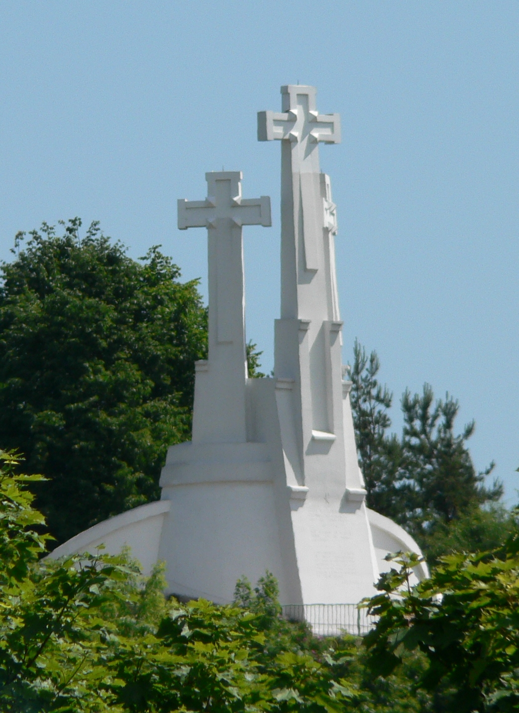 Three Crosses on the Bleak Hill in Vilnius, Lithuania